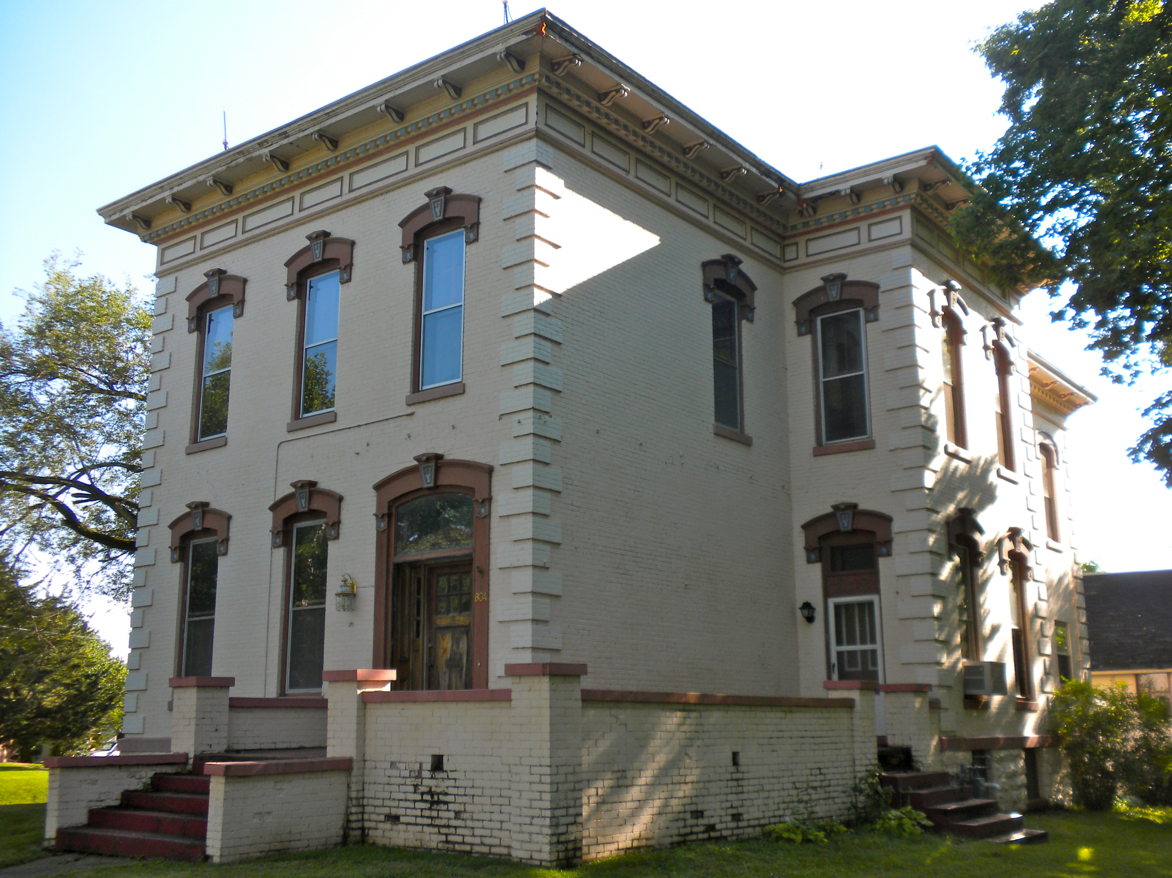 The Park Place-Grand Avenue Residential District on the NRHP since September 12, 2002. The historic district starts at 4th at Park Place and Orleans St. and runs north up Grand Ave. to Rand Park in Keokuk, Iowa. Grand Avenue may provide the grandest spectacle in the Historic District running along the top of the Mississippi River bluff, looking down on the river, with Gilded Age mansions lining the avenue. Several mansions in the district are also listed separately on the NRHP. This fairly small house is Italianate (like many) is on the 800 block of Grand Ave.